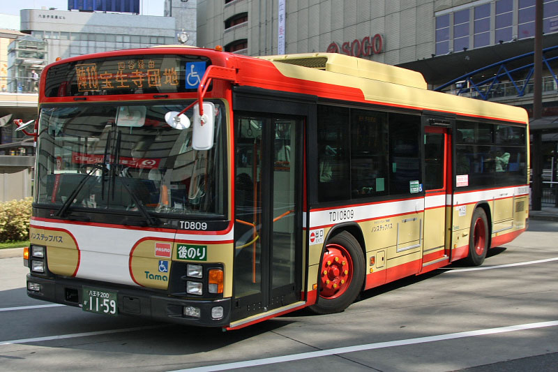 Tama Bus's route bus (Car No.TD10809 / Isuzu Erga PKG-LV234L2 / J-BUS body) at Hachioji Station North, Hachioji, Tokyo, Japan